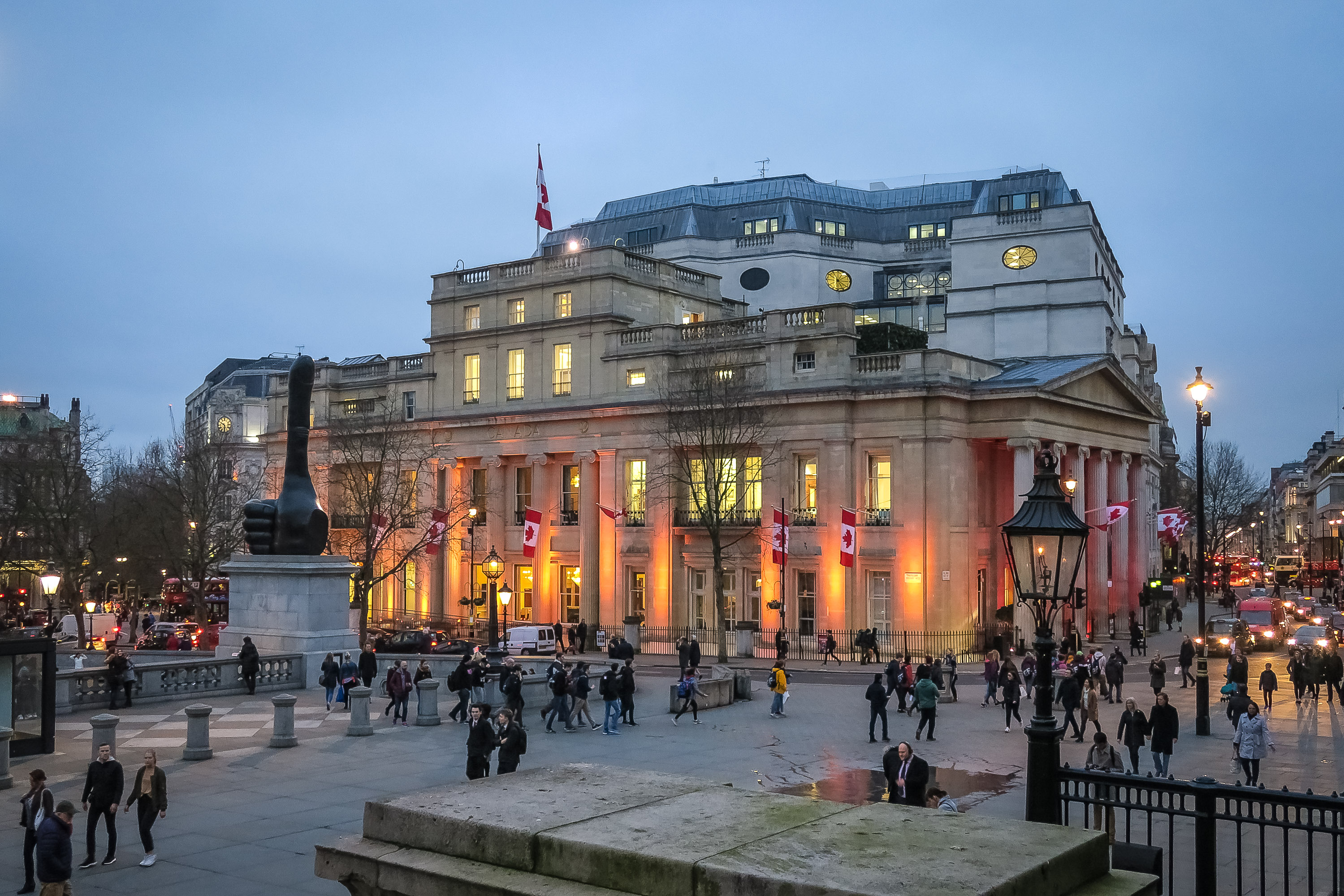 high commission, england, london, 2017, trafalgar square